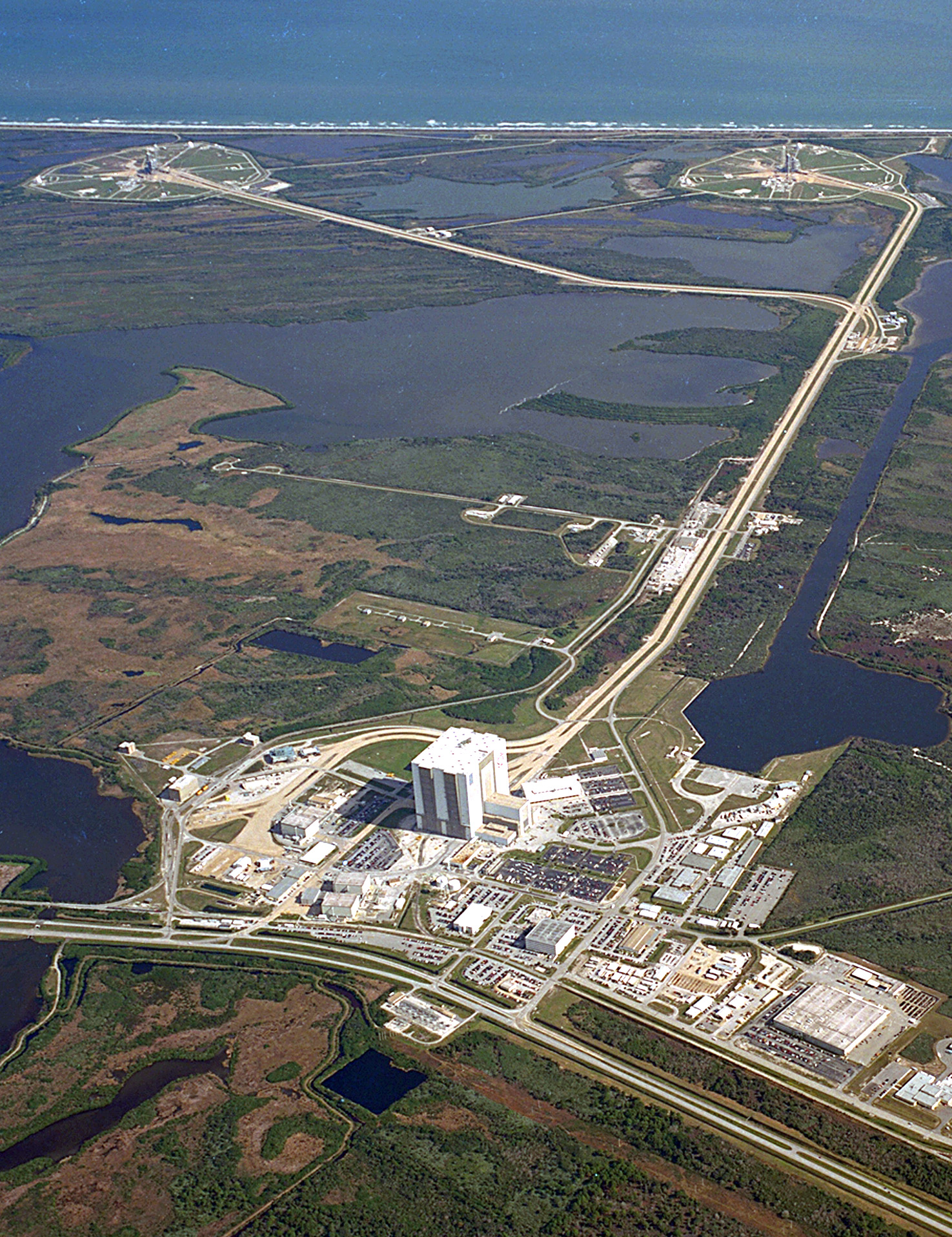 Complex 39 of the John F. Kennedy Space Center.